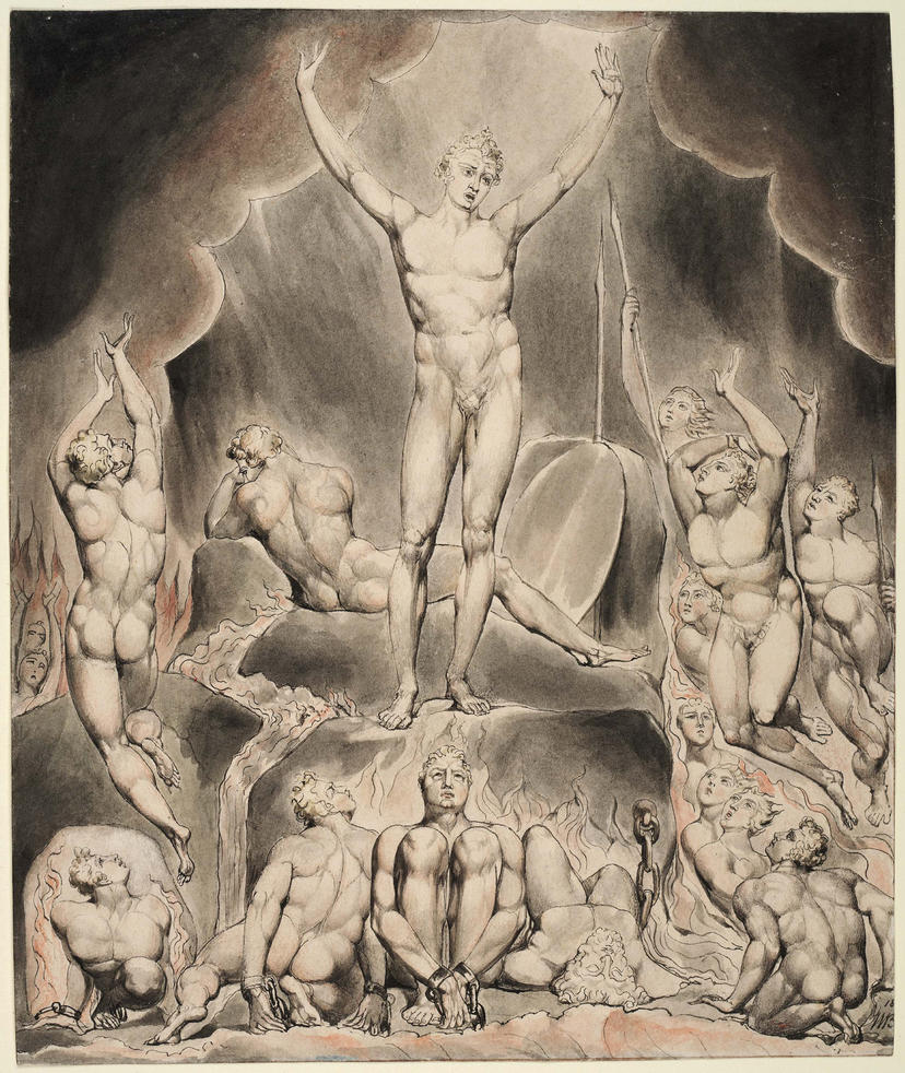 Watercolor Illustration to Milton's Paradise Lost by William Blake